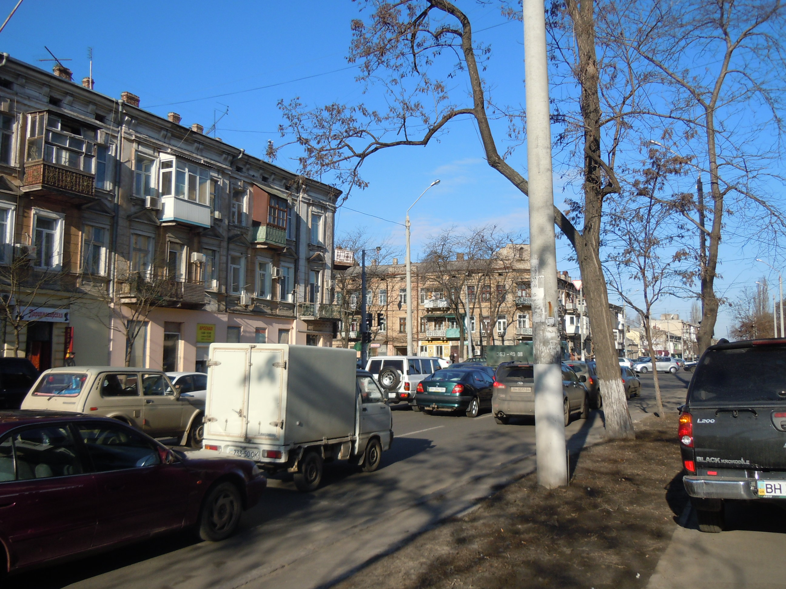 Myasoyidivska st., Odessa, Ukraine